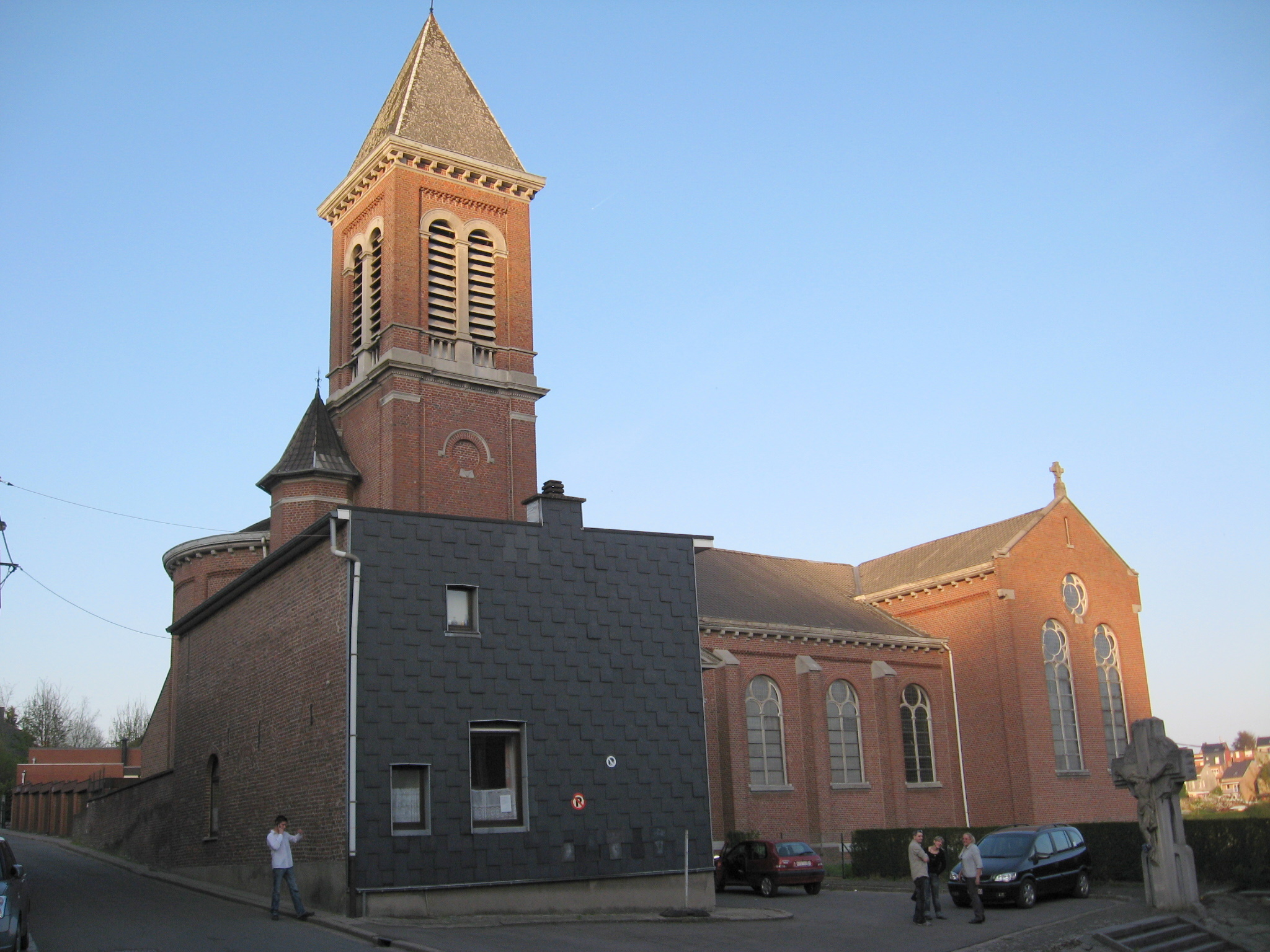 Church of Saint Remigius in Grâce, Grâce-Berleur, Grâce-Hollogne, Liège, Belgium